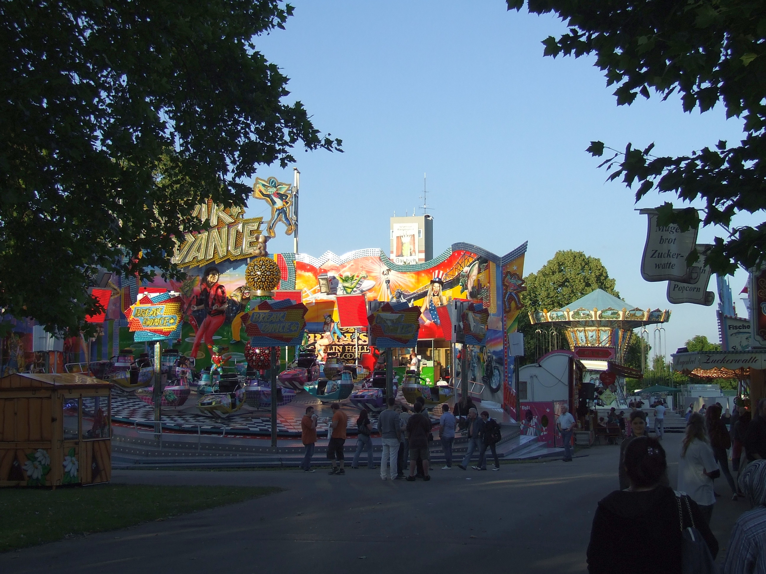 Gautsch funfair, Königsbrunn, Germany